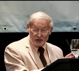 Nathan Wechtel is a French historian